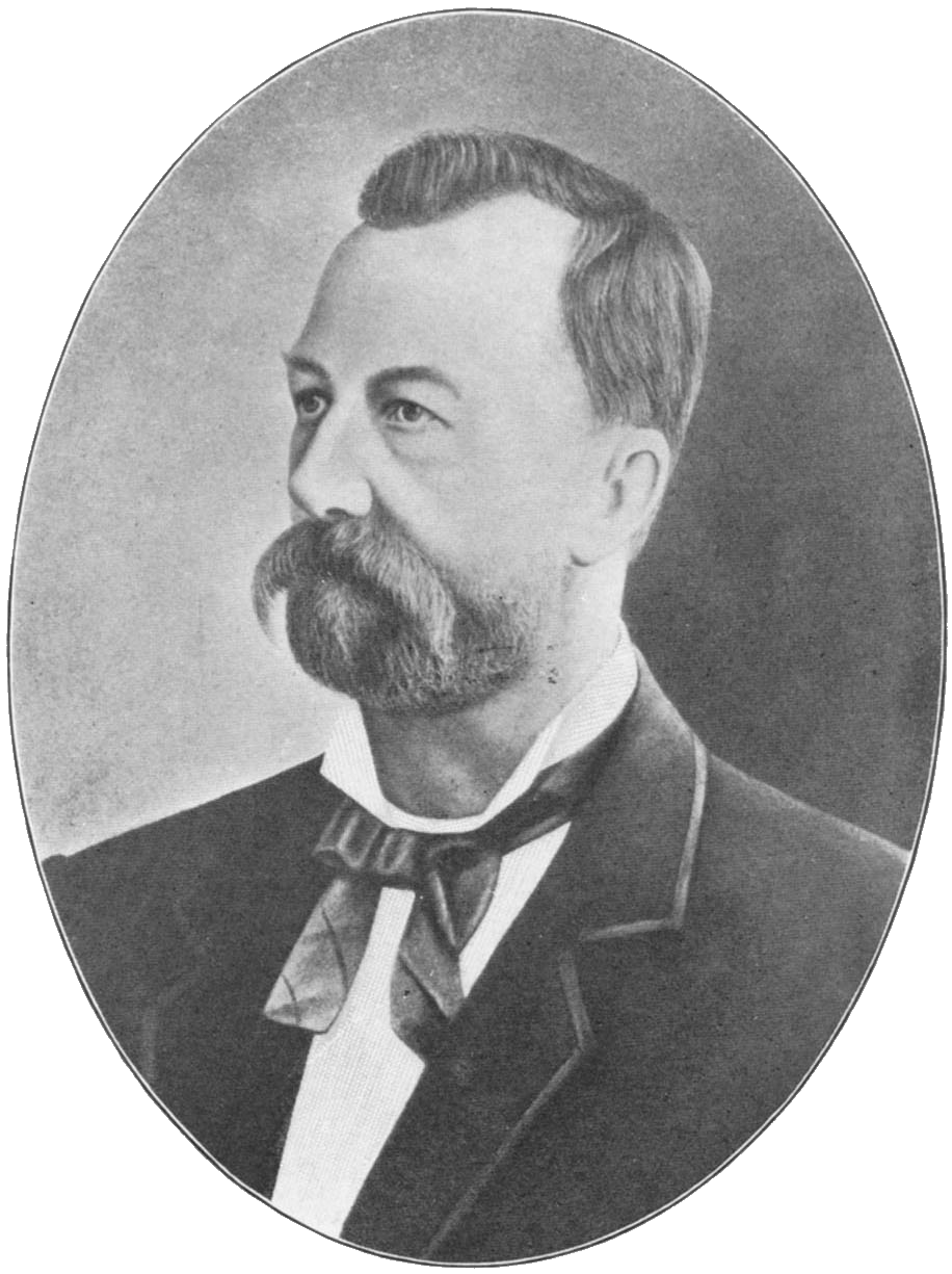 Black and white photographic bust portrait of Emil Preetorius, a proprietor of the German-language newspaper Westliche Post of St. Louis Missouri.